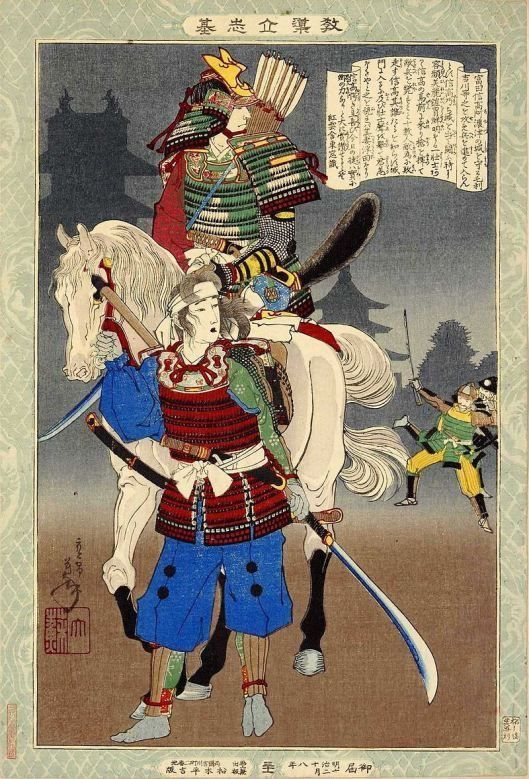 Yuki no kata and her husband, defending successfully Anotsu castle during the 1600 Sekigahara campaign.